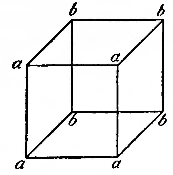 diagram on p145